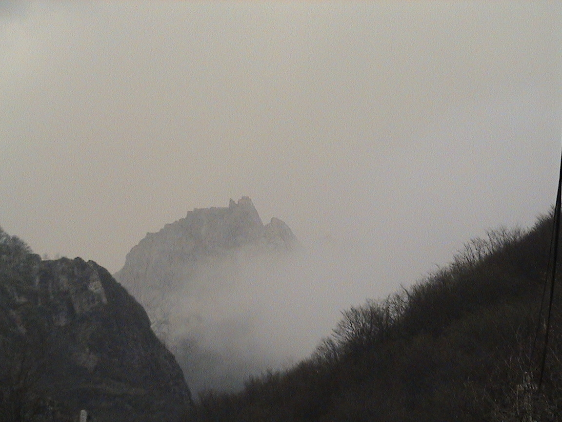 Babak Castle at Arasbaran forests